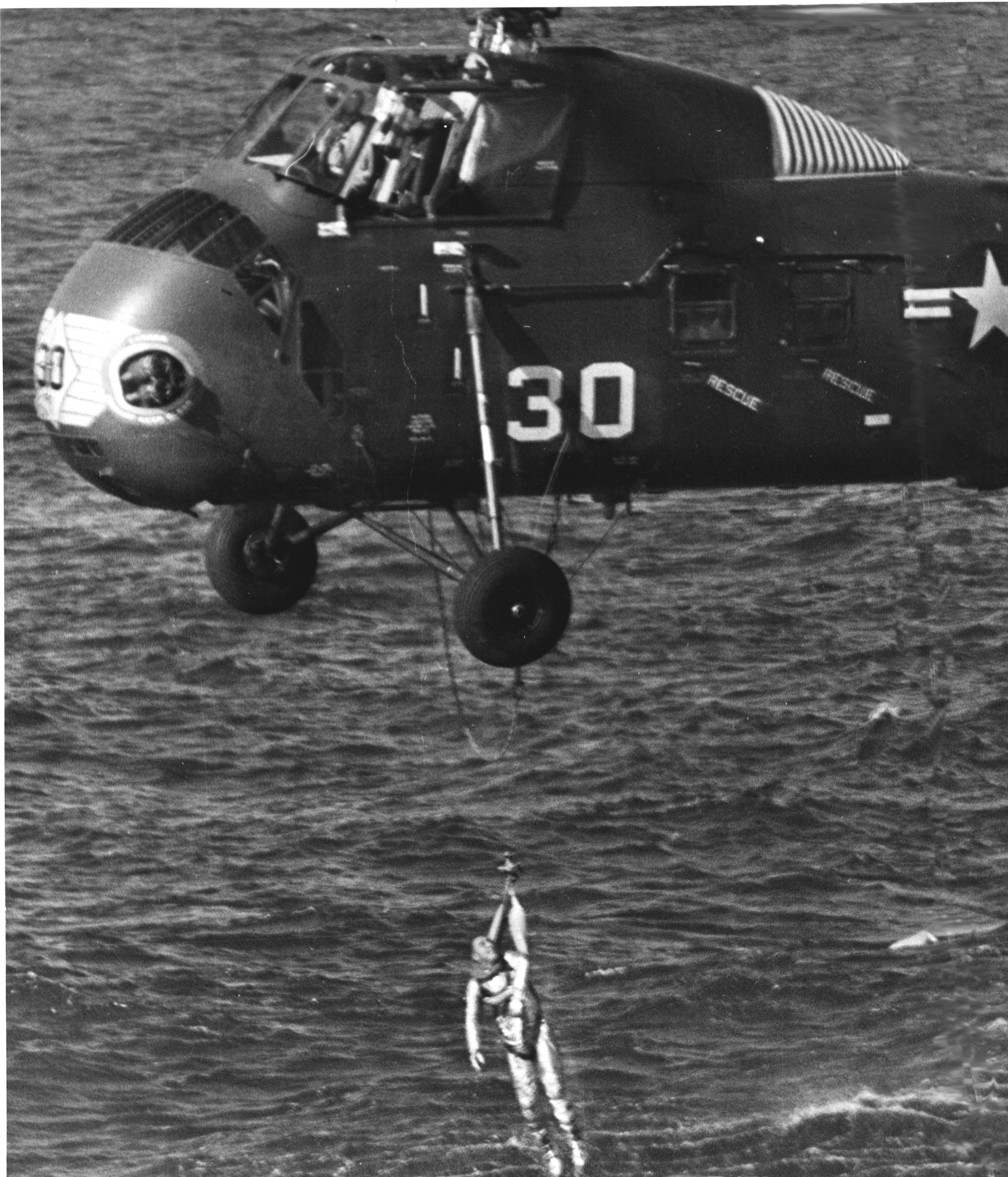 Marine helicopter has astronaut Virgil I. Grissom in harness and is bringing him up out of the water. The Liberty Bell 7 spacecraft has just sunk below the water. His Mercury-Redstone 4 launch was the second in the U.S. manned space effort. The helicopter is a Sikorsky HUS-1 Seahorse of Marine medium transport squadron HMR(L)-262 Det. Flying Tigers.